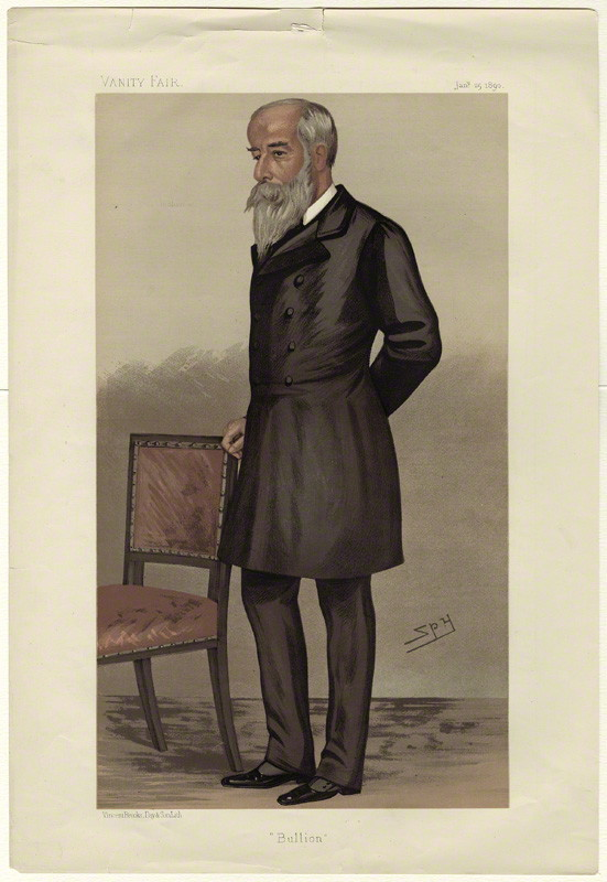 Mr Stewart Pixley, Bullion, 25 January 1890, Vanity Fair Cartoon